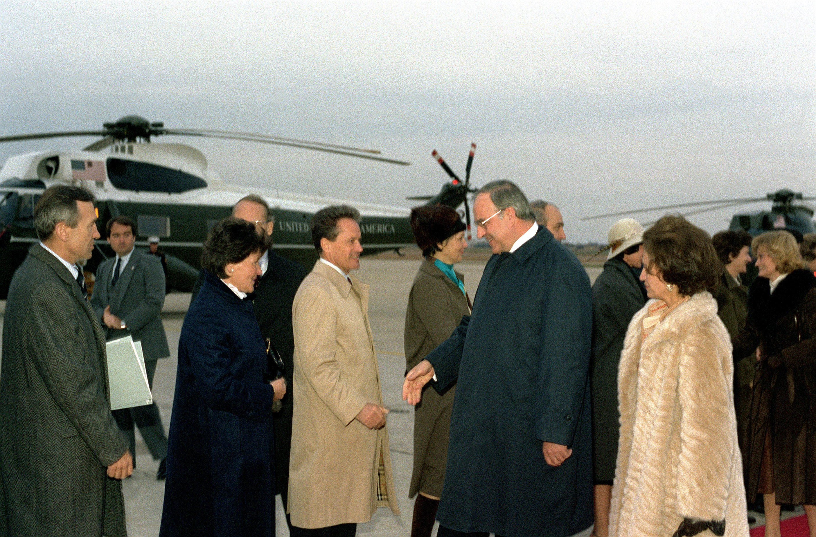 West German Chancellor Helmut Kohl arrives for a visit to Washington D.C.